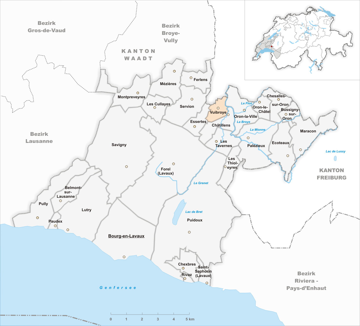 Municipality Vuibroye